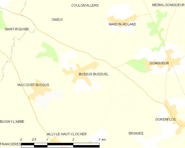 Map of French municipality Bussus-Bussuel